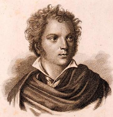 Portrait of Domenico Donzelli